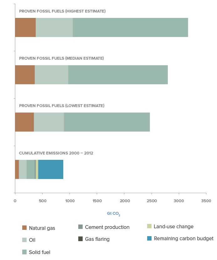 The carbon budget for a 80% chance of a 2 degree global warming compared to different estimates of the known reserves of fossil fuel companies and governments